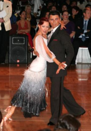 Ballroom Tango Dancers